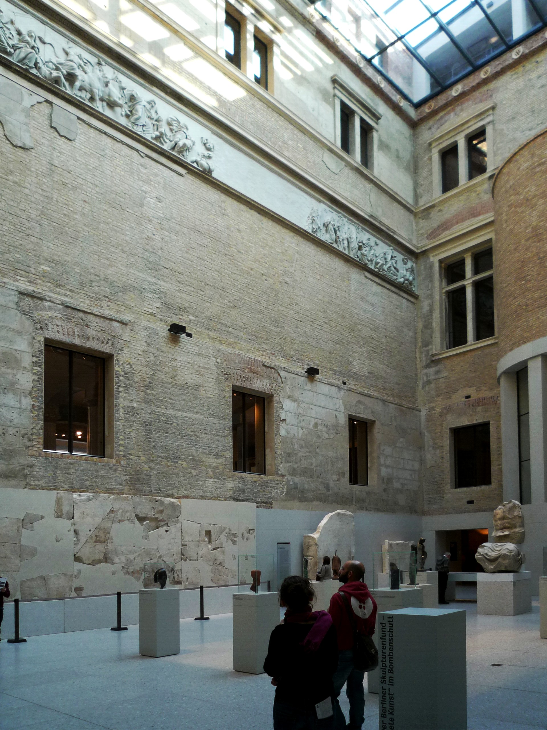 "Neues Museum" in Berlin-Mitte. The "Griechischer Hof" (Greek court-yard), partial view.